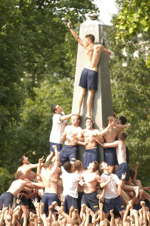 Herndon Monument climb at USNA 2011 (Class of 2014) - May 24, 2011